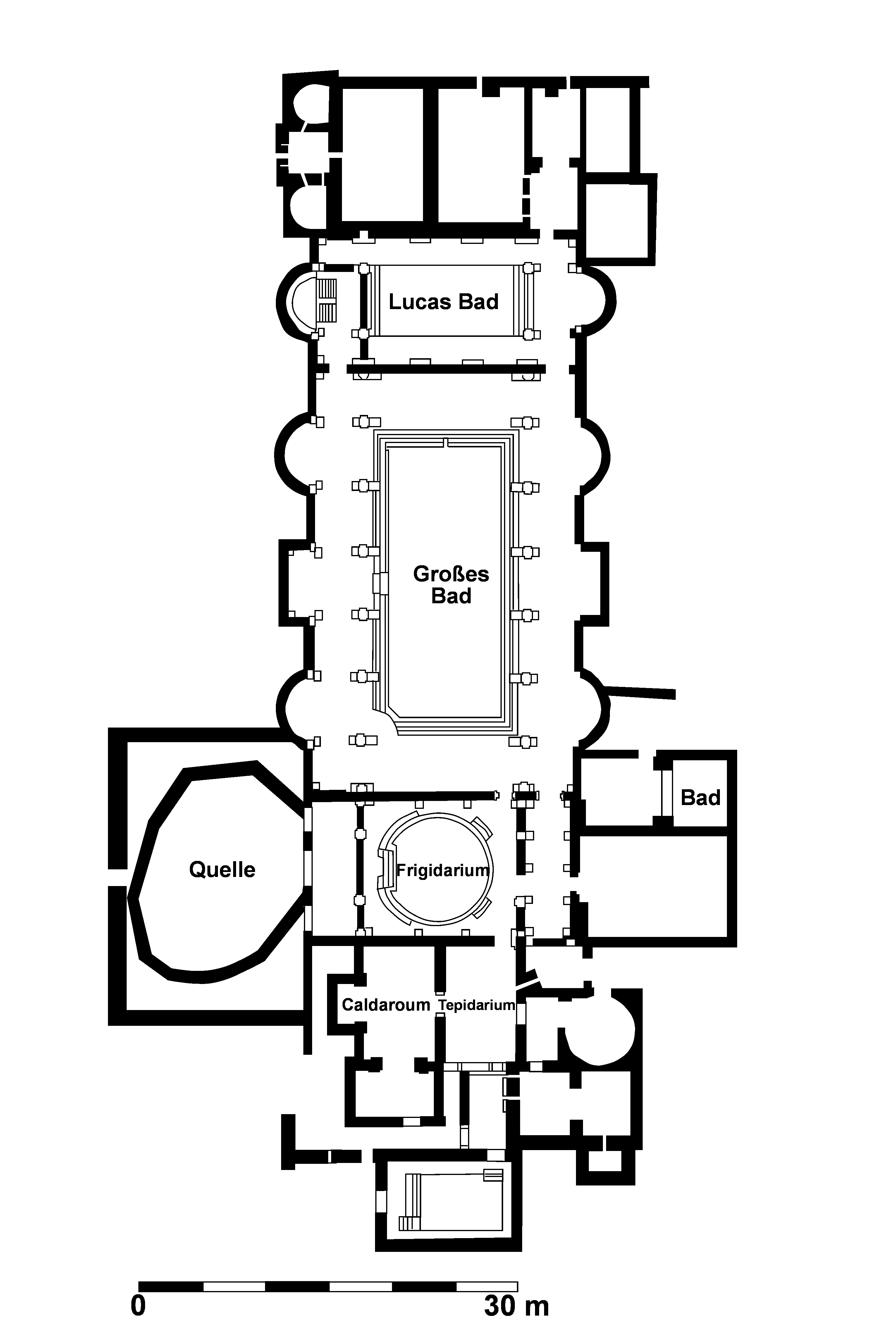 Plan of the Roman bath at Bath (England, Somerset), Fourth century AD. North is on the left